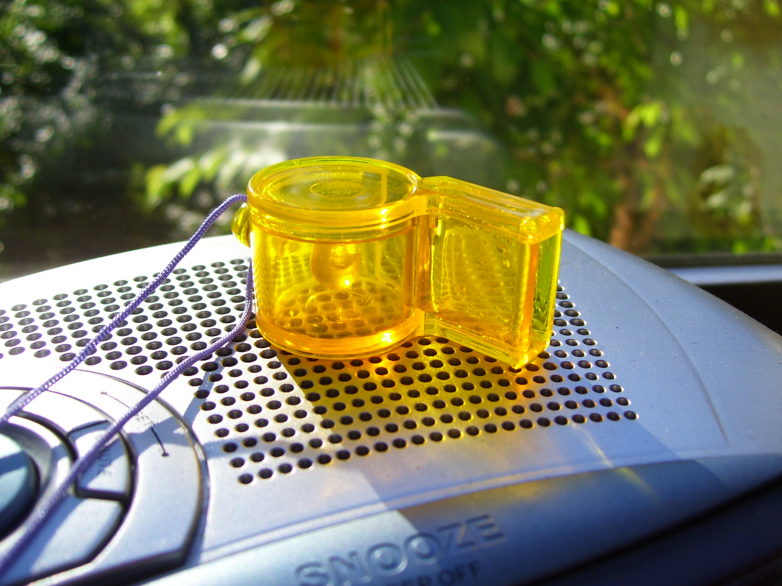 This is picture of a whistle, taken with a Kodak EasyShare C533